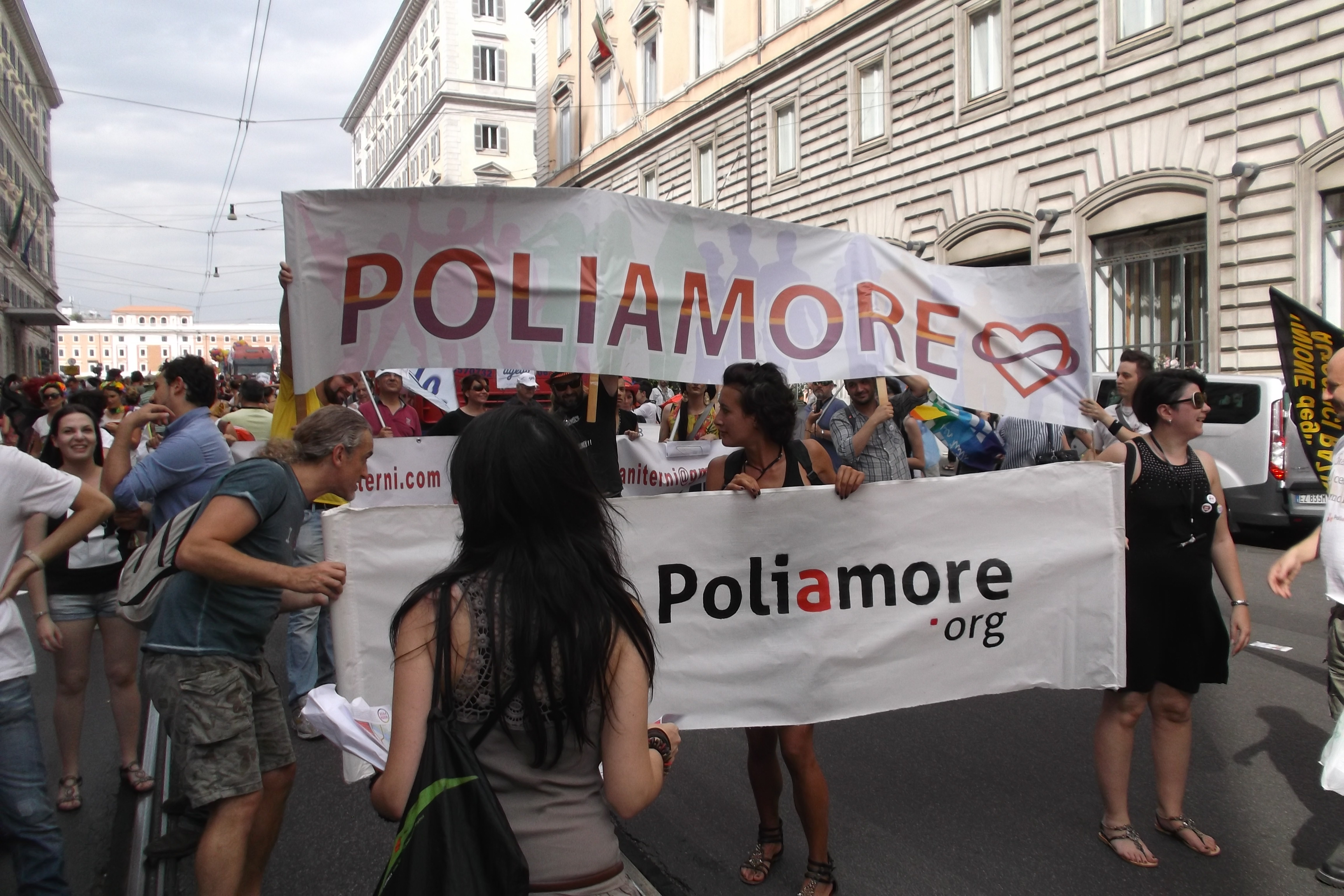 Polyamory activists at Rome Gay Pride 2015